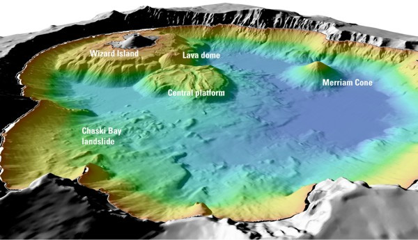 Crater Lake, Oregon, États-Unis, gfdl